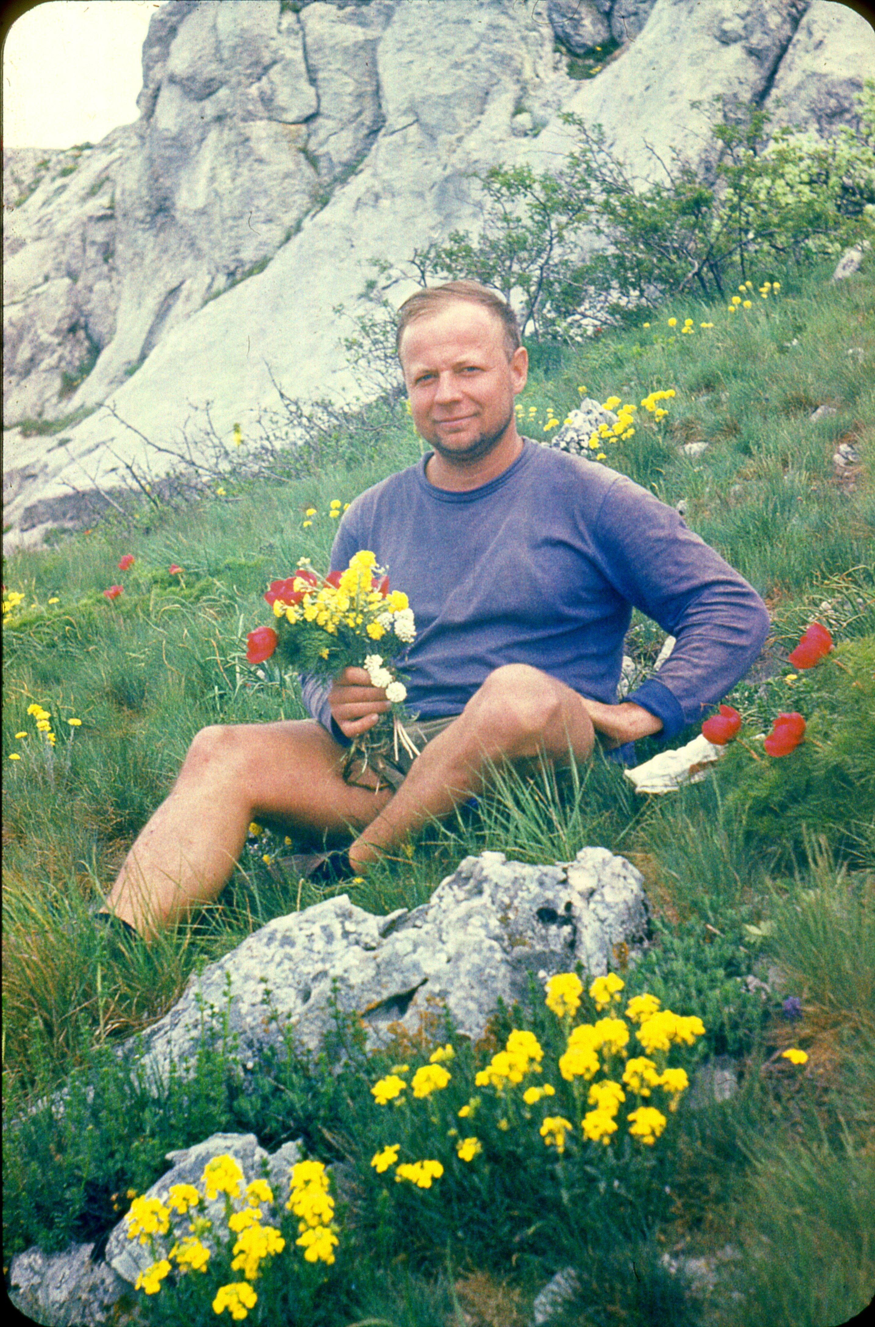 It is a photo of Anatolii Alekseevich Karatsuba during one climbing hike in Crimea.